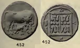 Greek coins and their parent cities (1902) Author: Ward, John, 1832-1912; Hill, George Francis, Sir, 1867-1948 Subject: Coins, Greek; Numismatics, Greek; Greece -- Description, geography; Italy -- Description and travel; Turkey -- Description and travel Publisher: London : Murray Possible copyright status: NOT_IN_COPYRIGHT Language: English Call number: AKB-0671 Digitizing sponsor: MSN Book contributor: Robarts - University of Toronto Collection: toronto Scanfactors: 7